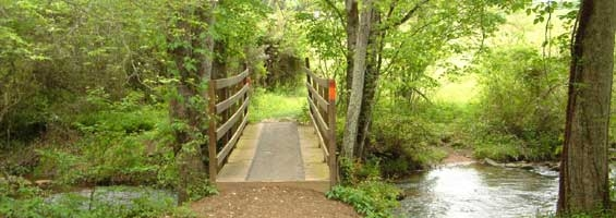 elk city bridge in the elk city state park, kansas